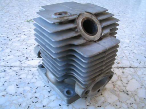 Cylinder head with integrated